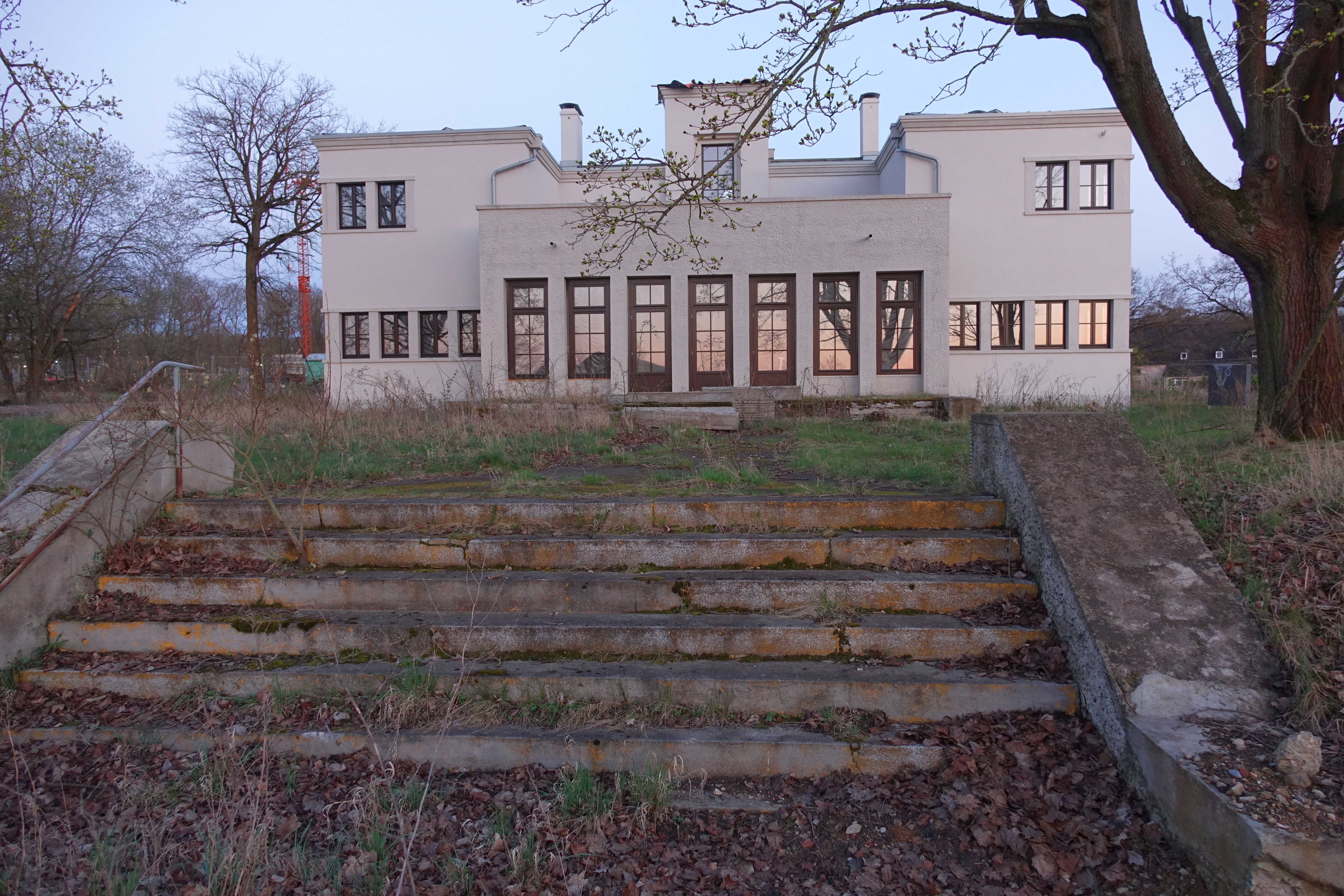 Former Airport Building of Giessen